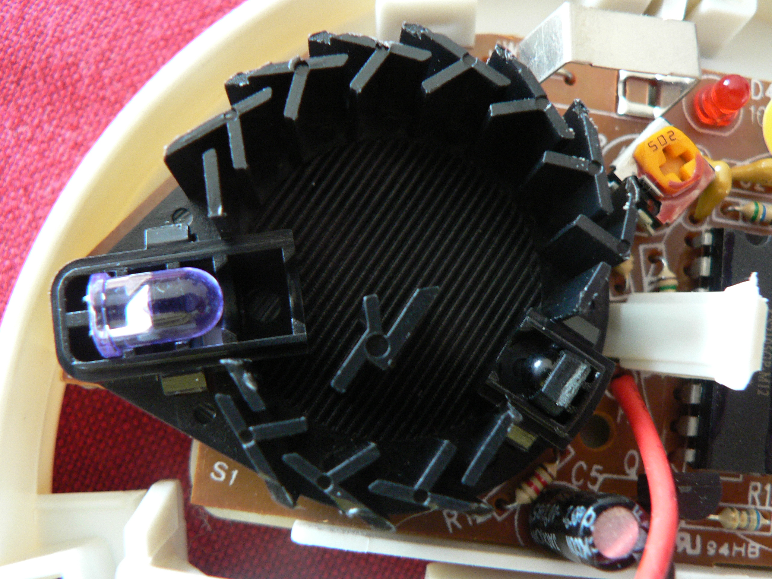 indirect optical smoke detector: on the left the light source, on the right the light detector, in between a septum: when smoke enters this chamber, light will be diffused by the smoke particles, causing light to be directed onto the detector